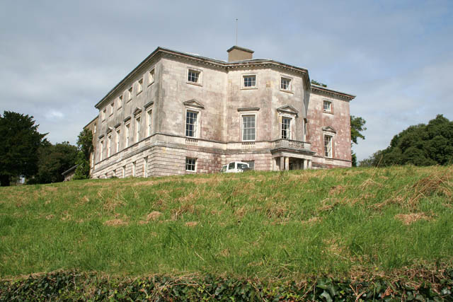 Sharpham House Sharpham House was designed in 1770 by Sir Robert Taylor for Captain Philemon Pownall, R.N. Although building started in 1770 it was not completed until 1826, after Captain Pownell's death. In 1954 W.G.Hoskins described the house as "externally a plain, almost ugly, late Georgian house . . ." The principal rooms are decorated in the Adam style and the gardens were laid out by "Capability" Brown. The house is now the home of the Sharpham Centre for Contemporary Buddhist Enquiry which runs numerous courses and is also a non-sectarian retreat.